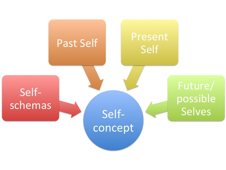 One's self-concept is made up of self-schemas, their past, present and future selves.